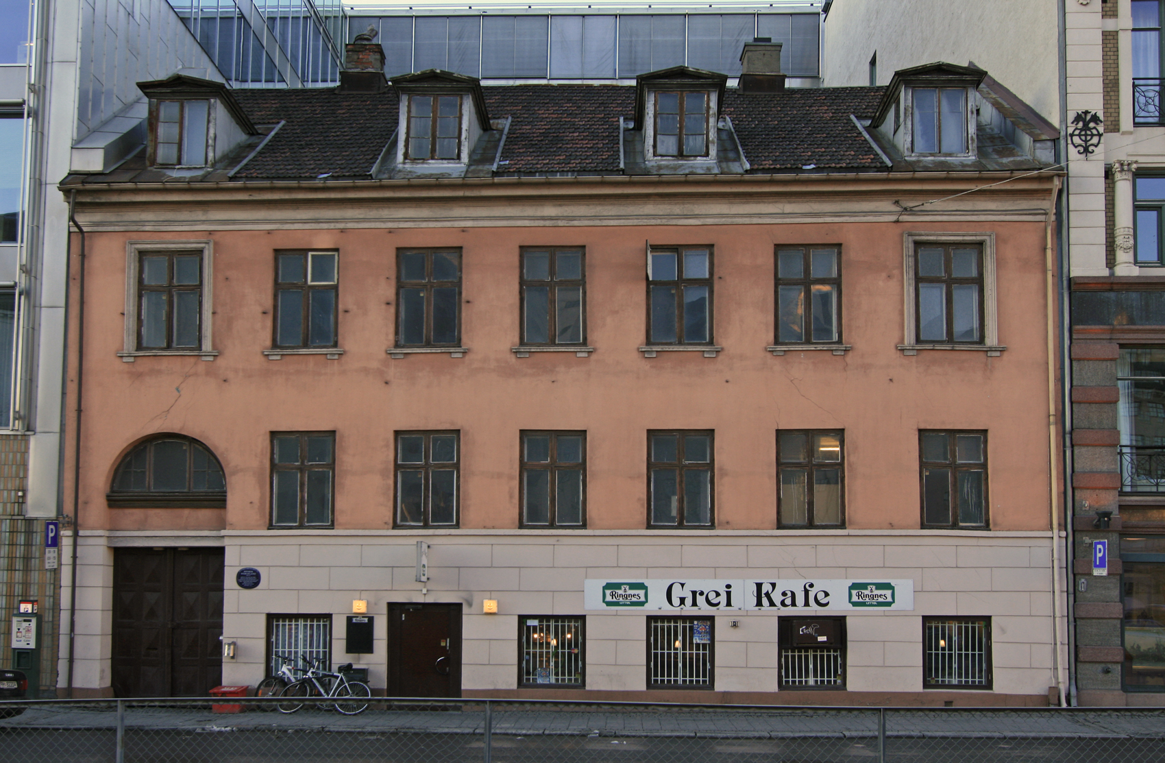 Skippergata 3, Oslo. Built 1837 in empire style. Public house since 1837 - Oslo's oldest. This is where Henrik Wergeland met Amalie Sofie Bekkevold.